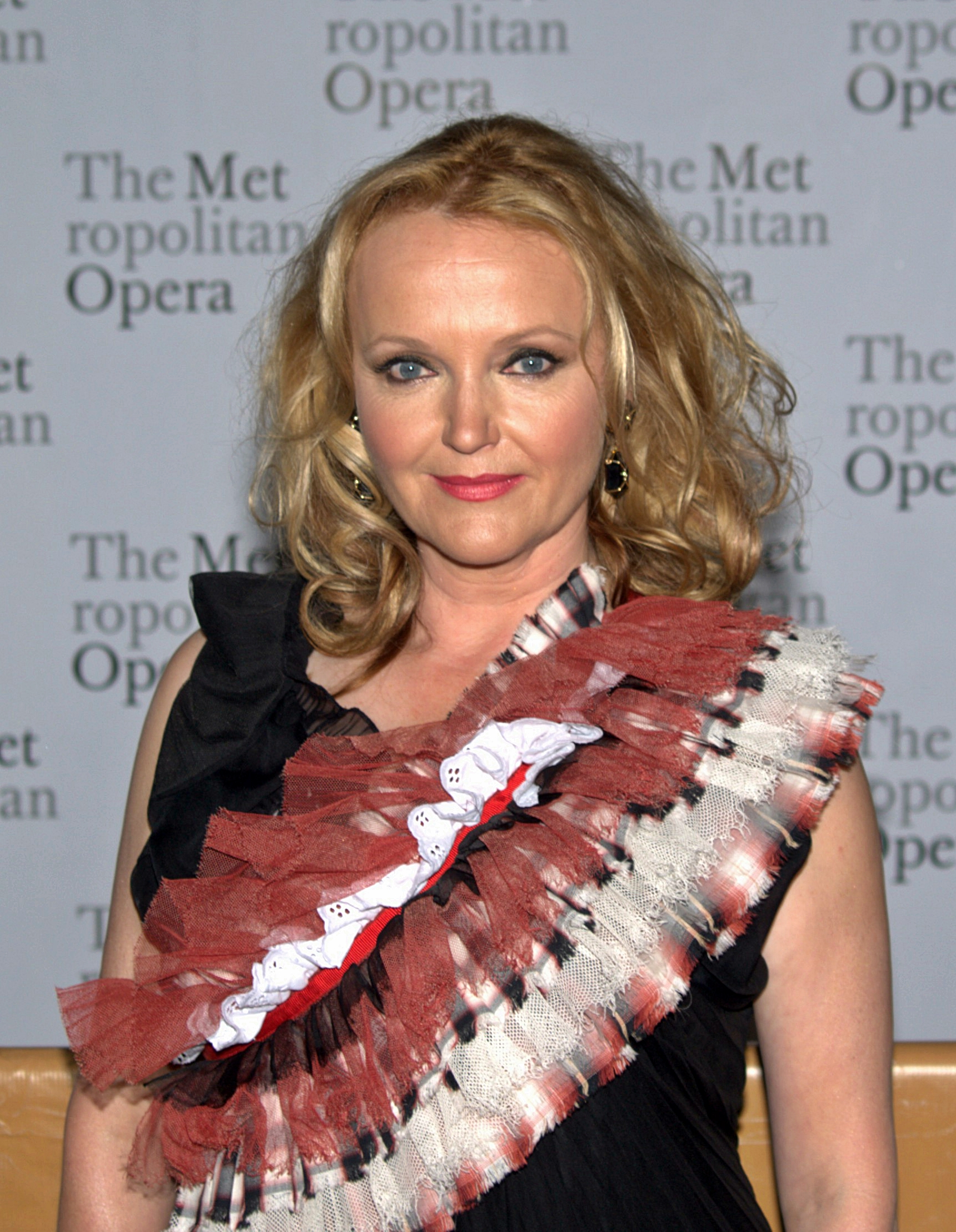 Miranda Richardson at Metropolitan Opera's 2010-11 Season Opening Night - "Das Rheingold"